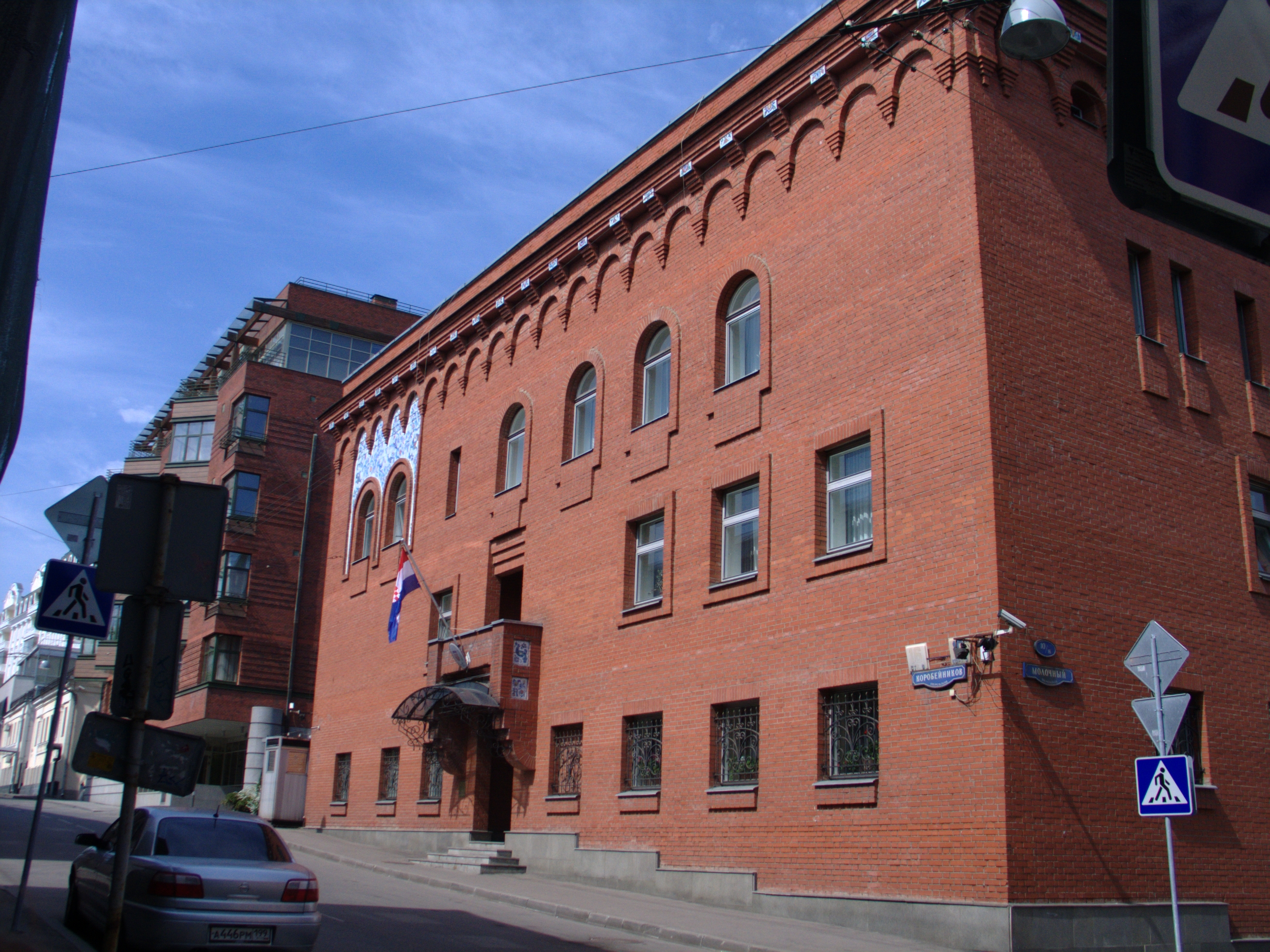 Building of the Embassy of Croatia in Moscow (Korobeynikov side-street 16/10).